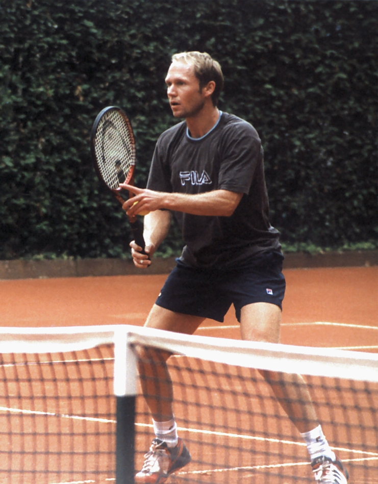 The German tennis player Rainer Schüttler at the public training for the World Team Cup in Düsseldorf, Germany, 2005.